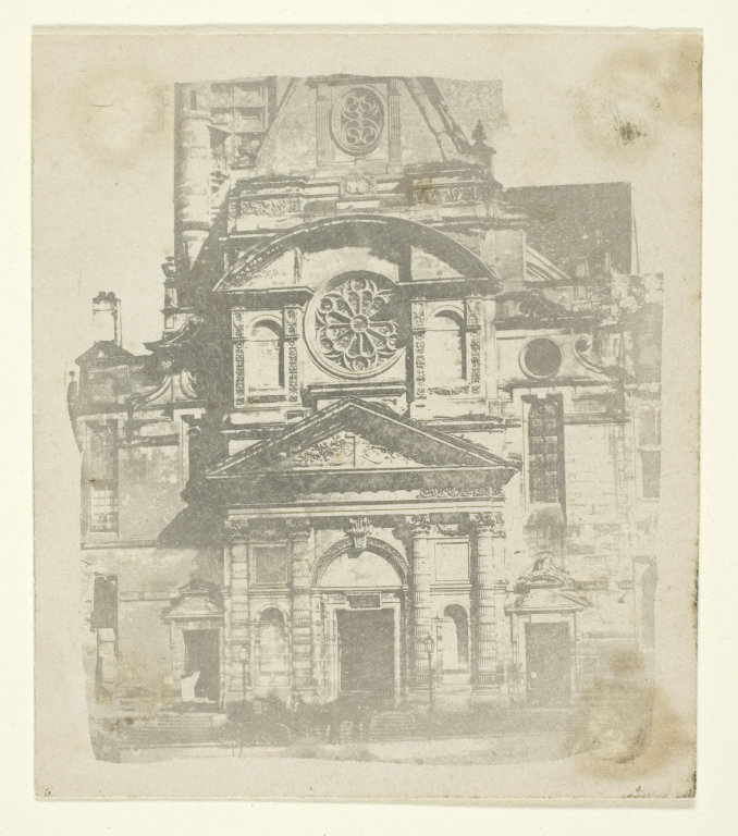 Photoglyphic engraving by Henry Fox Talbot